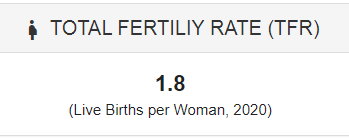 total fertility rate